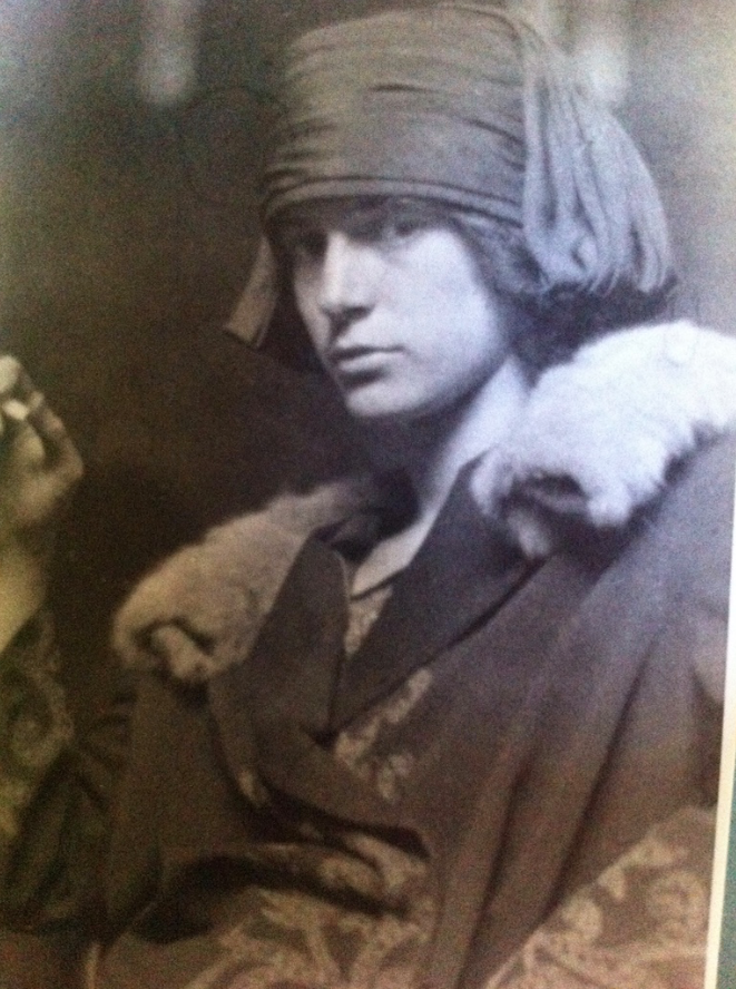 Photo of American painter Ethel Schwabacher